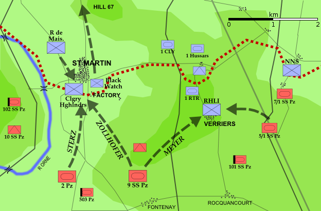 German counterattacks during July 25-26, 1944 on Canadian positions at Verrières Ridge